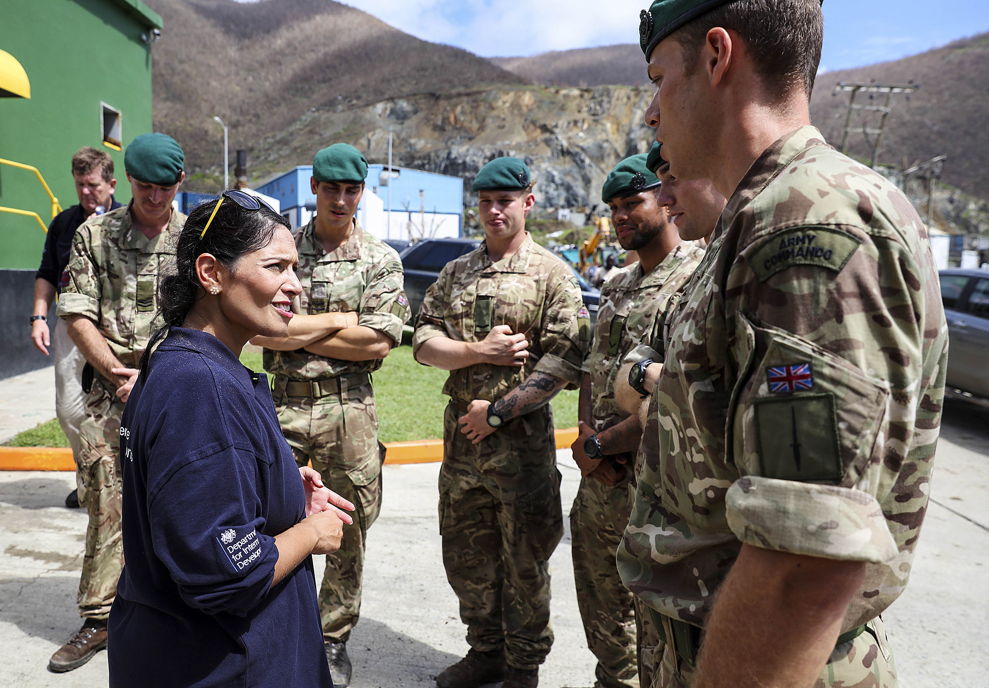 Picture shows Rt Hon Priti Patel MP talking toa group of Royal Engineers at Henry Wilfred 'Freddie' Smith Power Station, Tortola, 24 September 2017. The Secretary of State for International Development has visited the British Virgin Islands to understand the reality of the devastation and the humanitarian relief efforts so far. In Secretary of State Rt Hon Priti Patel's own words: She said, "The scene is incredible, just wide scale devastation. Quite frankly it looks like the scene from a horror movie, it's apocalyptic, it's stark." She went on to describe the "human spirit and sheer determination" that she had seen during her visit already. In expressing her assessment on the military support to the islands, she said, "British forces have played a remarkable role since the hurricane with Ocean and Mounts Bay. I was on there [HMS Ocean] this morning and the extent of supplies, logistics and coordination is incredible." Picture: MOD